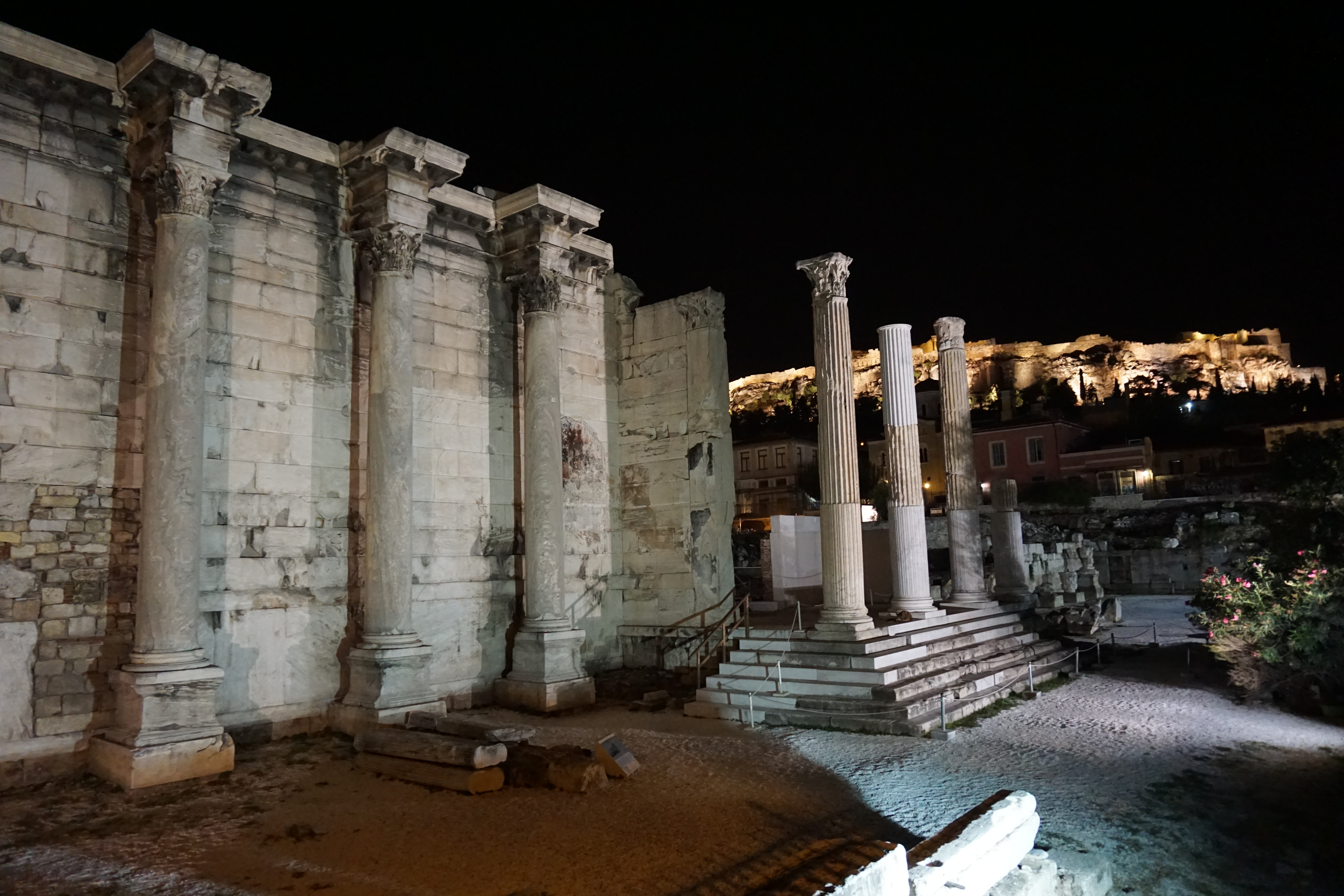 The Library of Hadrian and in the distance the Acropolis of Athens.«Βιβλιοθήκη Αδριανού»